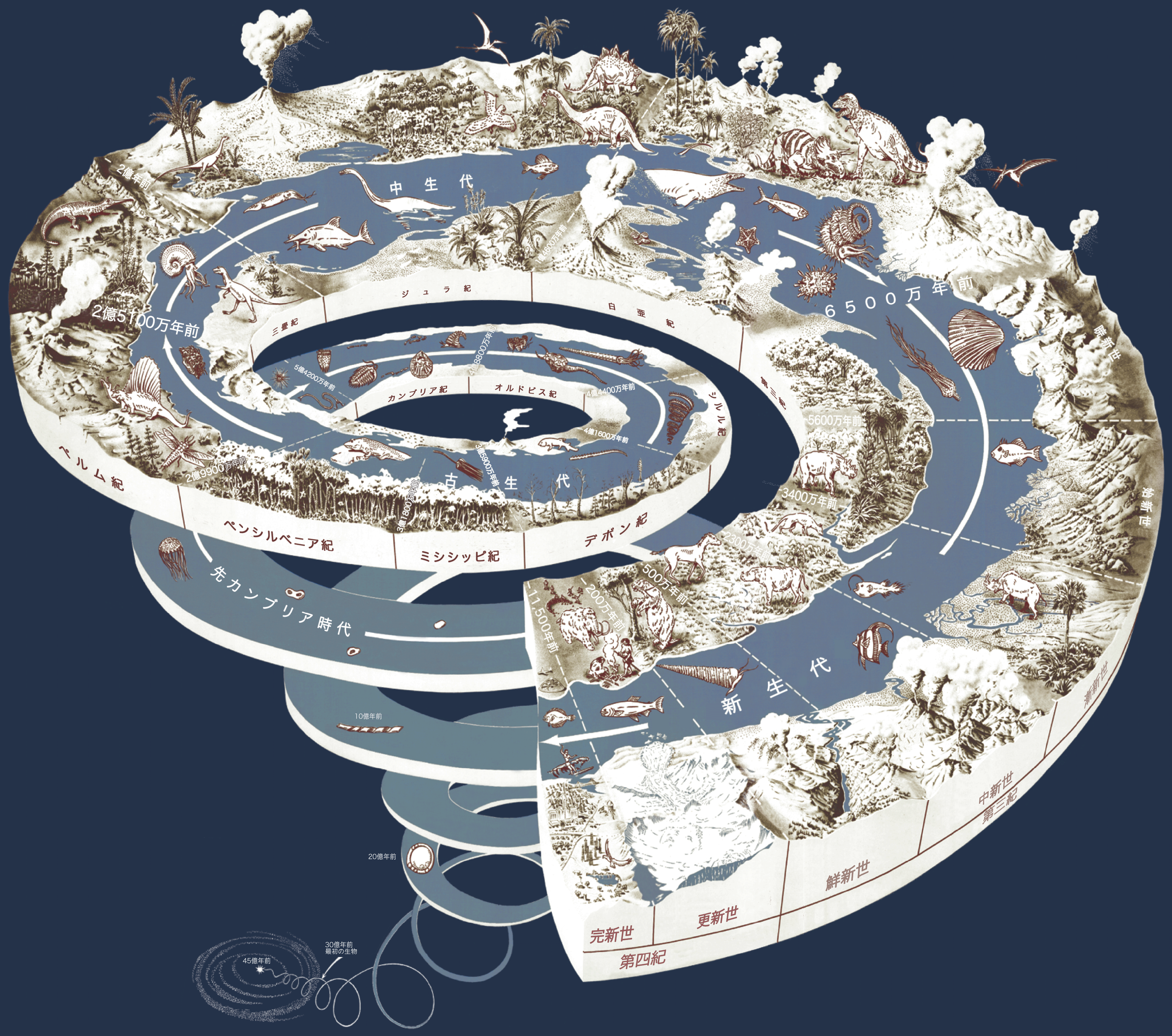 A diagram of the geological time scale in Japanese same image is on File:Geological_time_spiral.png in English